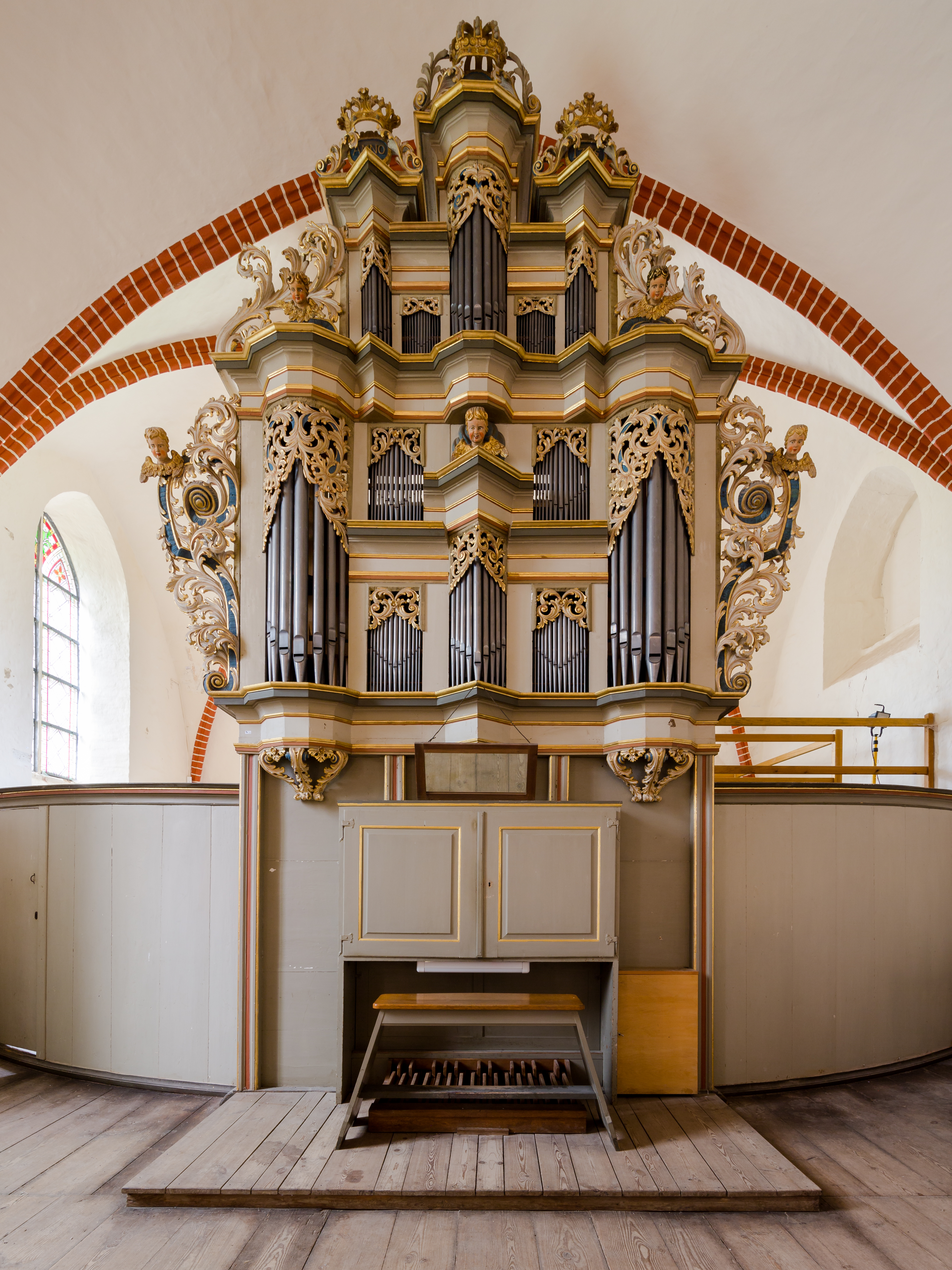 Stiftskirche, Monastery Endowment of the Holy Grave, Heiligengrabe, Brandenburg, Germany